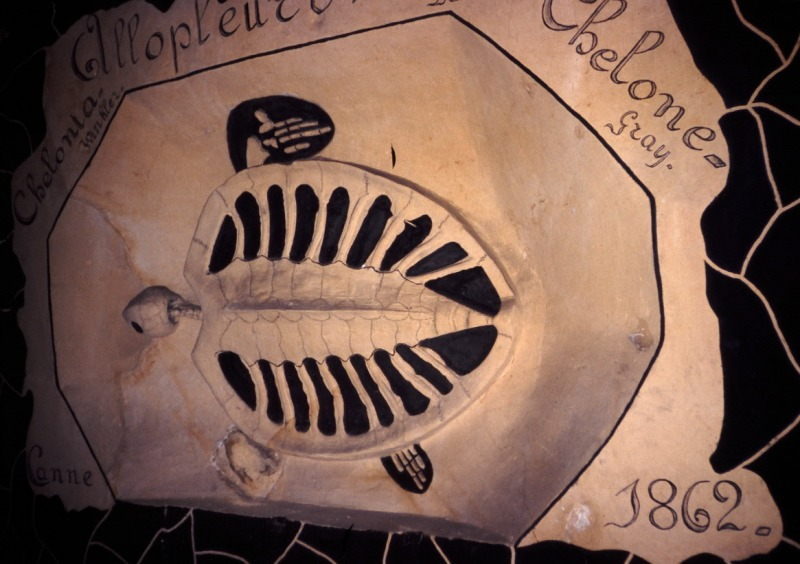 Jezuïetenberg - Allopleuron Hofmanni 1862.